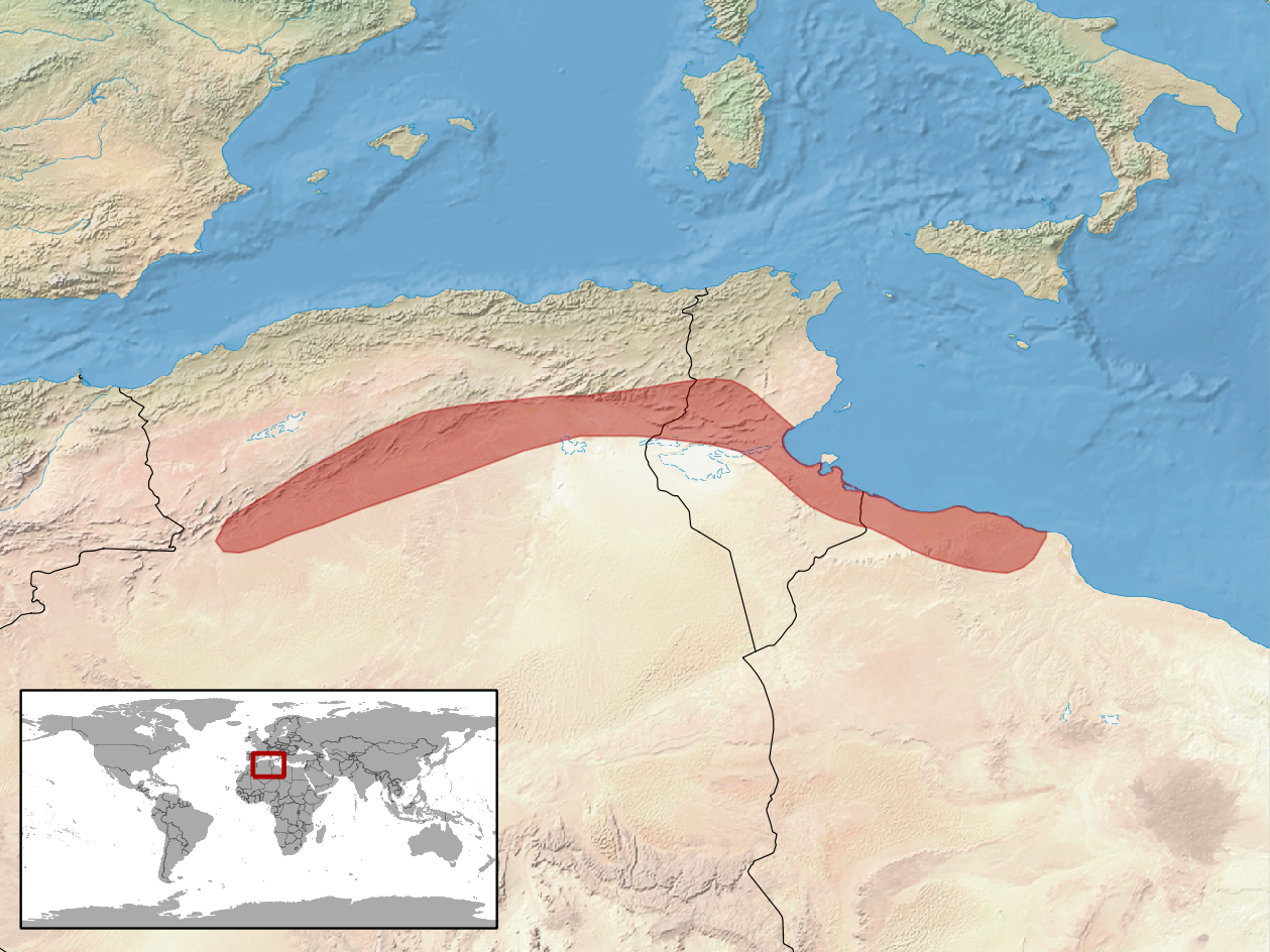 geographic distribution of Daboia deserti syn Macrovipera deserti (Native: Algeria; Libya; Tunisia)